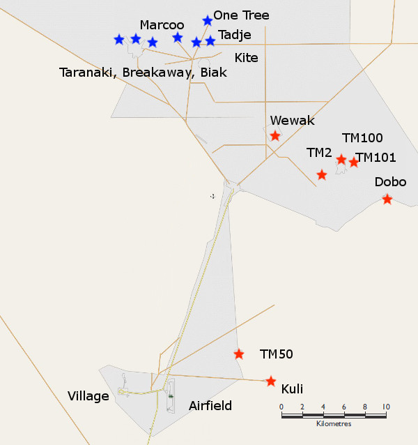 Map of Maralinga, showing locations of major trials (blue) and minor trials (red). Map from Wikipmapia. Locations from Maralinga Rehabilitation Technical Advisory Committee (MARTAC) (2002). Rehabilitation of Former Nuclear Test Sites at Emu and Maralinga (Australia) 2003 (PDF) (Technical report). Canberra: Department of Education, Science and Training. ISBN 0-642-77328-9. OCLC 223722793. [1] p. 9